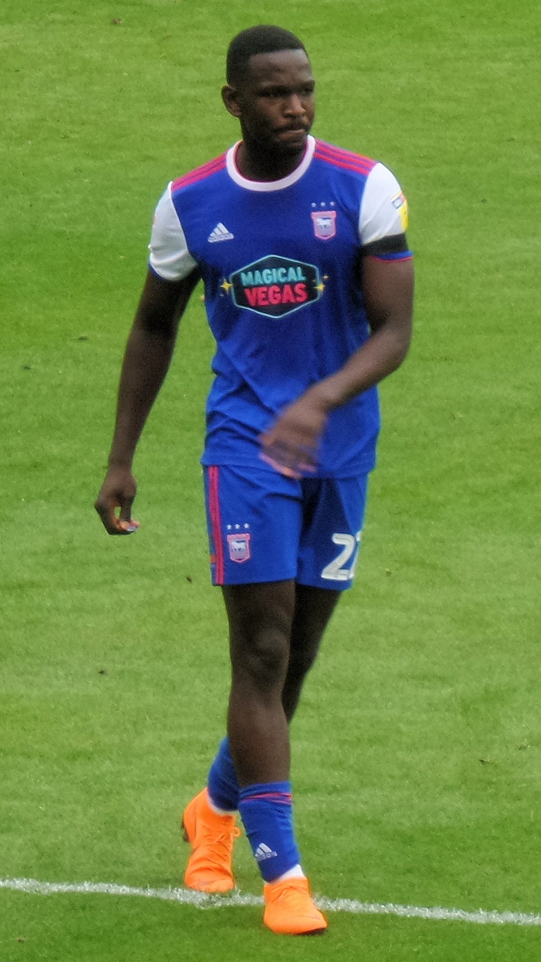 Toto Nsiala on his Ipswich Town debut against Rotherham United on 11 August 2018